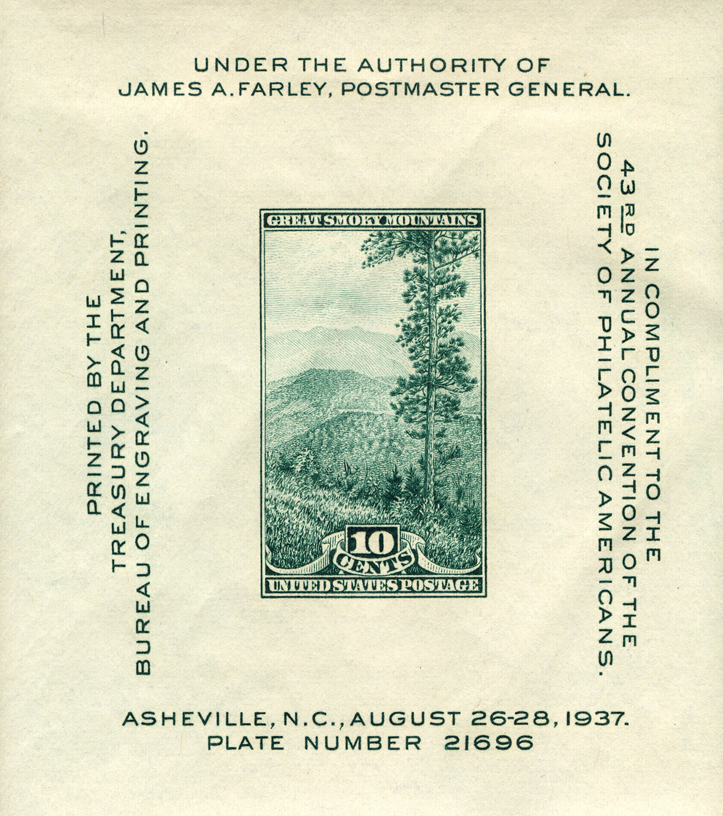 Society of Philatelic Americans 10-cent 1937 U.S. souvenir sheet, issued to mark the annual convention of the Society of Philatelic Americans (originally named the Southern Philatelic Society; defunct since the early 1980s), held in Asheville, North Carolina on August 26-28, 1937. The imperforate sheet reproduced the 10-cent National Parks stamp of 1934 in blue green color rather than the original gray-black. The stamp shows a scene from Great Smoky Mountains National Park, located near Asheville.